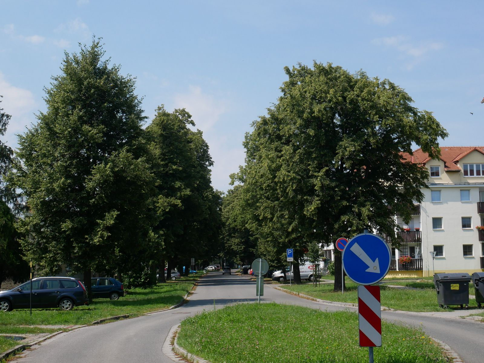 The main street of Novosady, former suburb of the town Holešov, now its part, consinting mostly of the housing complex but also preserving some original architecture.